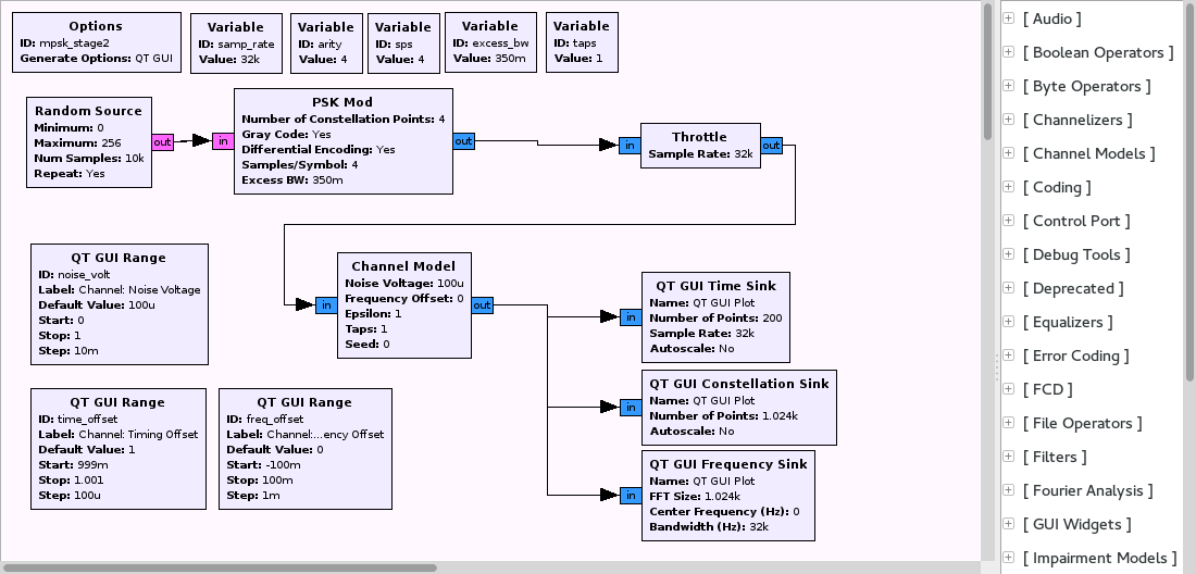 This is a screenshot of the GNU Radio Companion, showing an MPSK-related GNU Radio flowgraph.